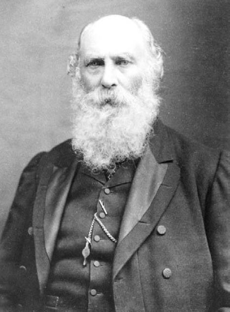 Photograph of physicist George Johnstone Stoney, born 1826, died 1911.